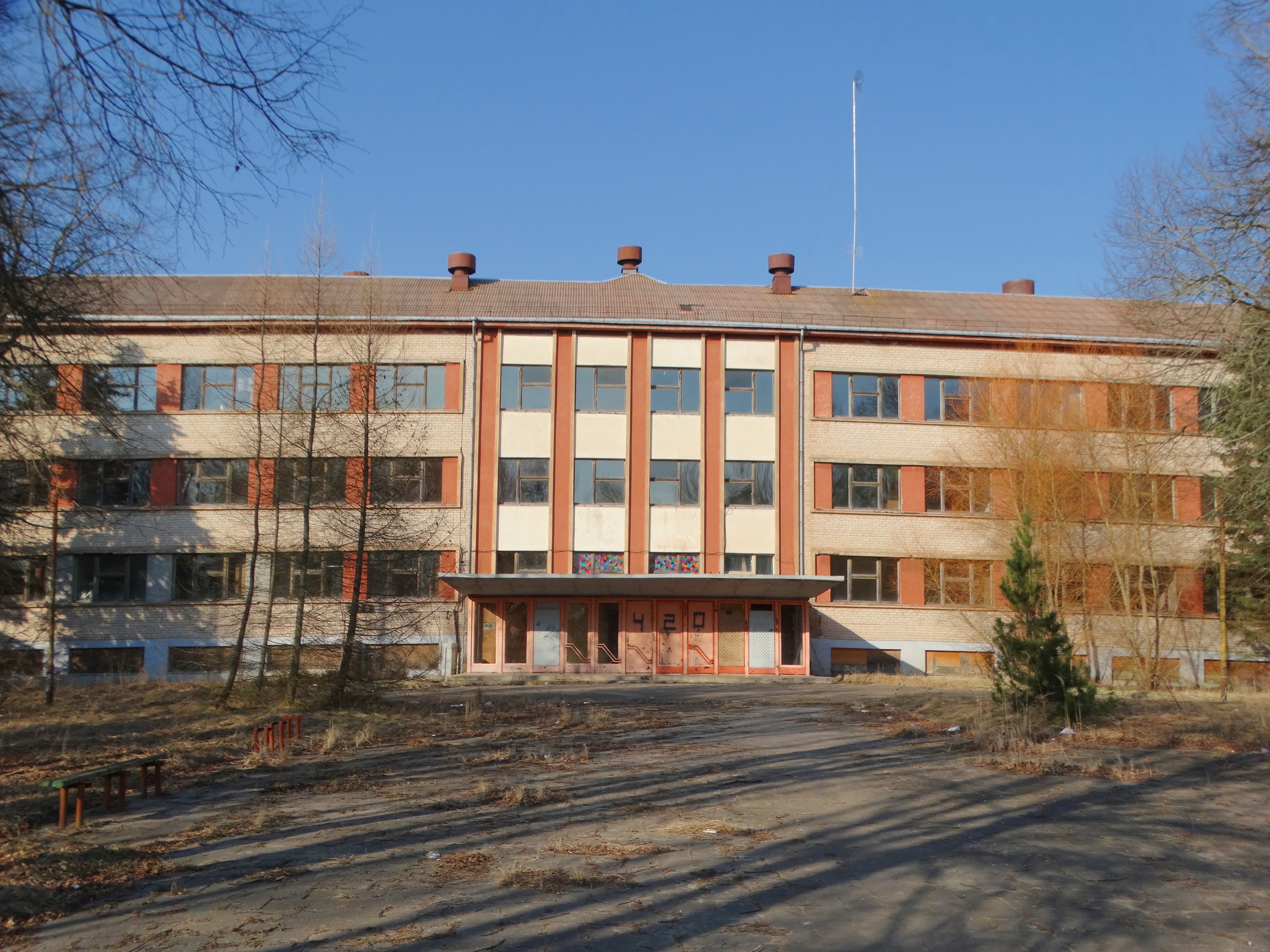 Former school of agriculture, Gruzdžiai, Šiauliai district, Lithuania